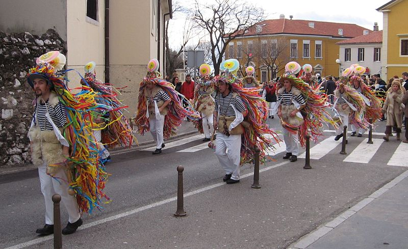 The Carnival of the Istro-Romanians from Jeiăn, 2006.